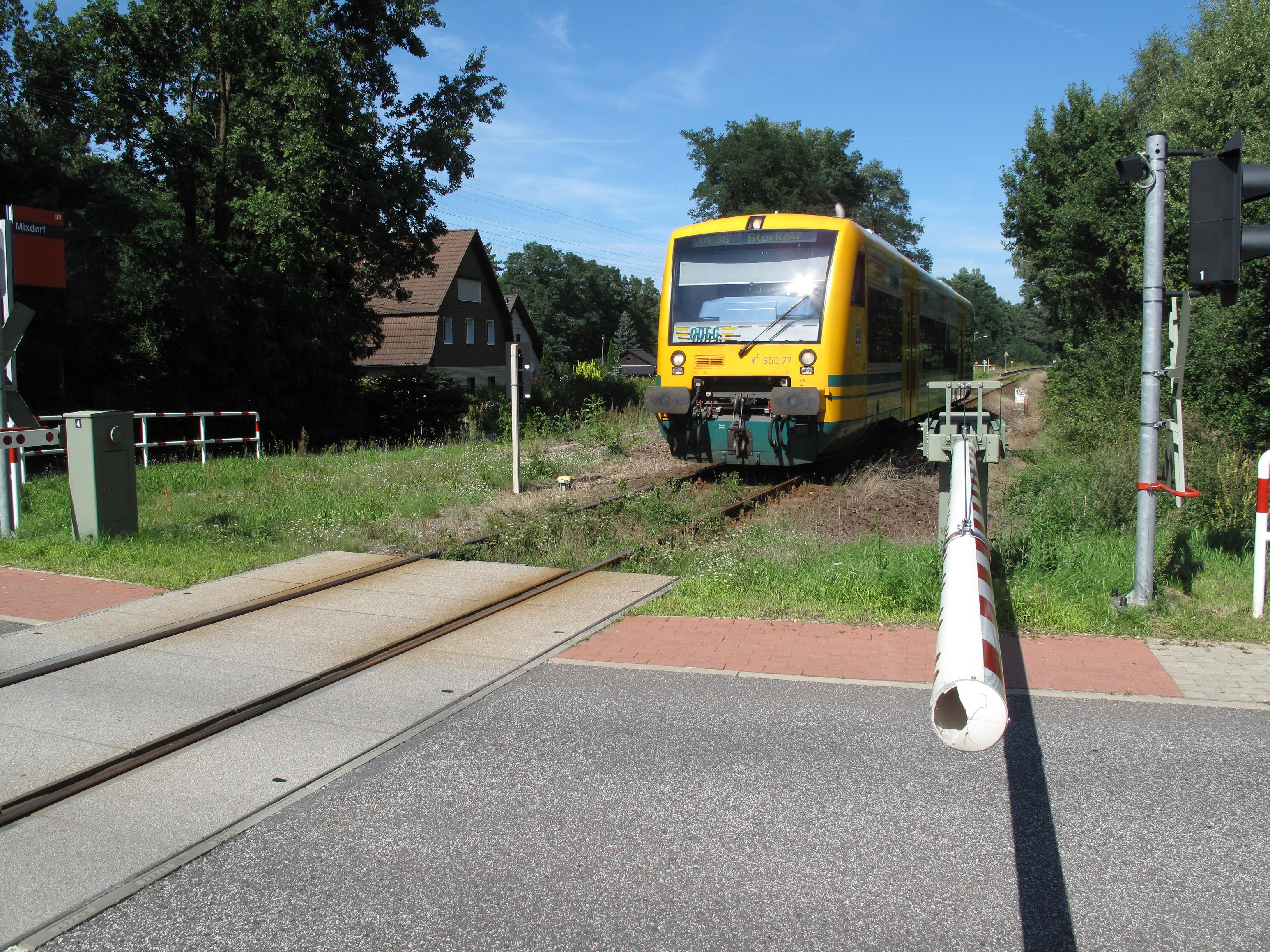 Level crossing the street between Mixdorf and Merz nearby the train station Mixdorf, Railway line Cottbus–Frankfurt (Oder). Mixdorf is a municipality in the District Oder-Spree, Brandenburg, Germany. Railcar Stadler Regio-Shuttle RS1.